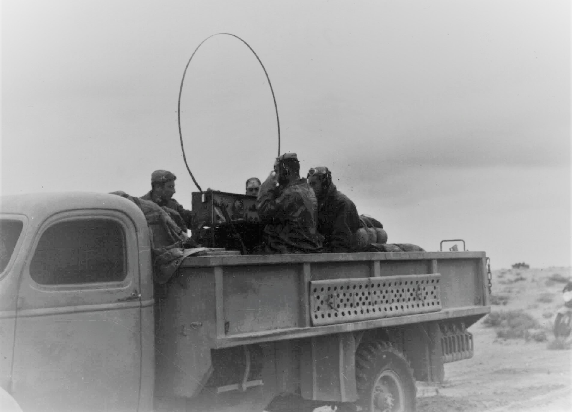 Italian soldiers in a truck with radio in the desert of Bir el Gobu in the Fall of 1941